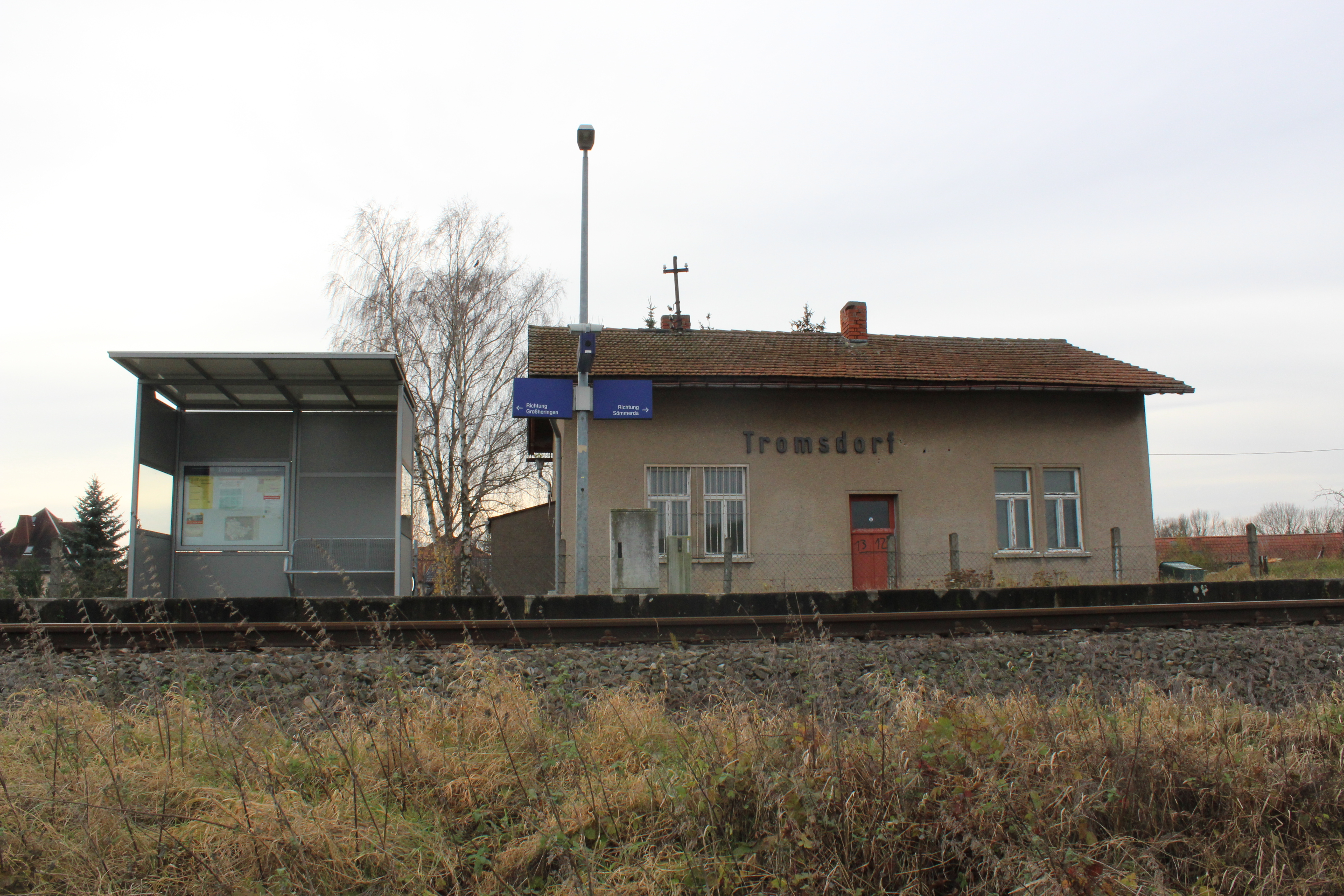 train station Tromsdorf